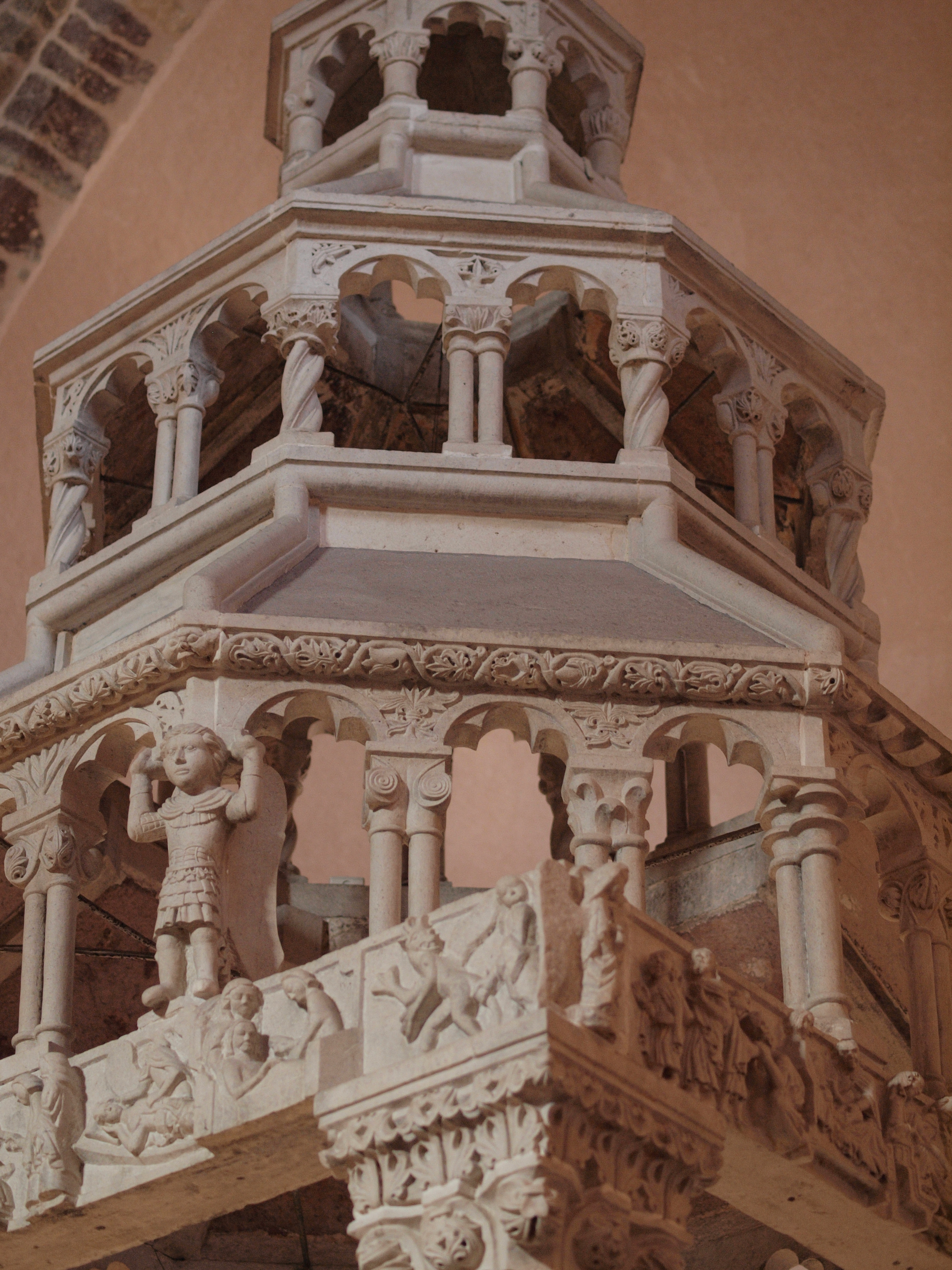 Kotor cathedral ziborium